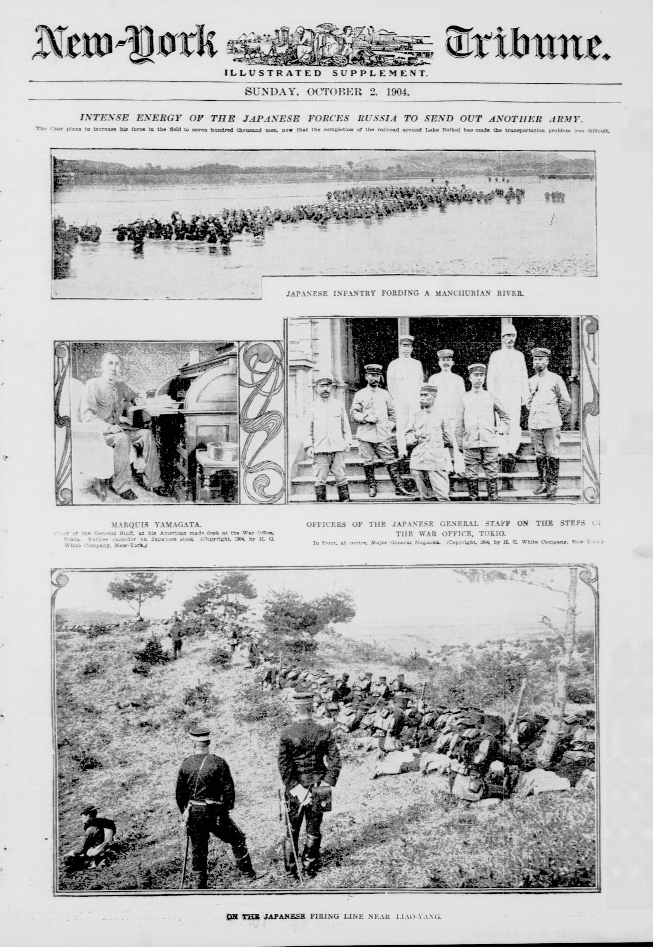 New-York tribune. (New York [N.Y.]) 1866-1924 October 2, 1904, Image 27 Notes: Cover, illustrated supplement. Format: Newspaper page, from microfilm Rights Info: No known restrictions on reproduction. Repository: Library of Congress, Serial and Government Publications Division, Washington, D.C. 20540 USA. Part Of: Chronicling America (Library of Congress) (DLC) - Persistent URL: More information about the Chronicling America Web site is available at